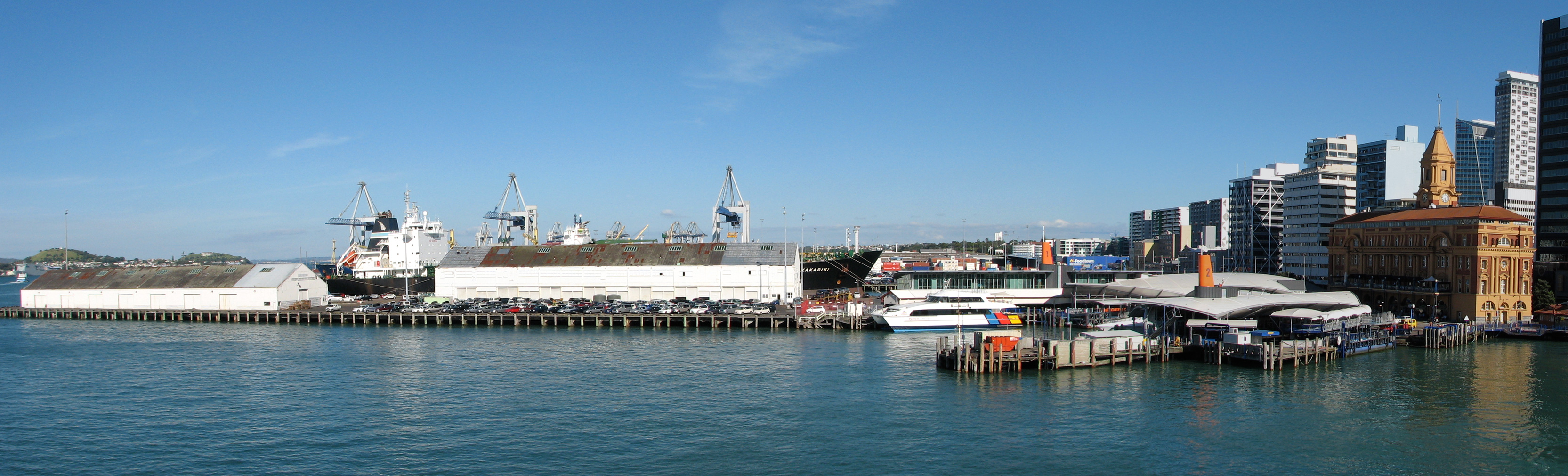 Stitched panorama of Queen's Wharf taken from Princes Wharf. I took this photo from Princes Wharf in November 2007. It is stitched together from three photos with my old Canon S2 IS. You can see the two sheds, and many imported cars parked up on the deck of the wharf. On the right of the panorama you can see the Ferry Building and its terminals. The cranes in the background are on the Axis Bledisloe container terminal which is three wharfs east of Queens Wharf.